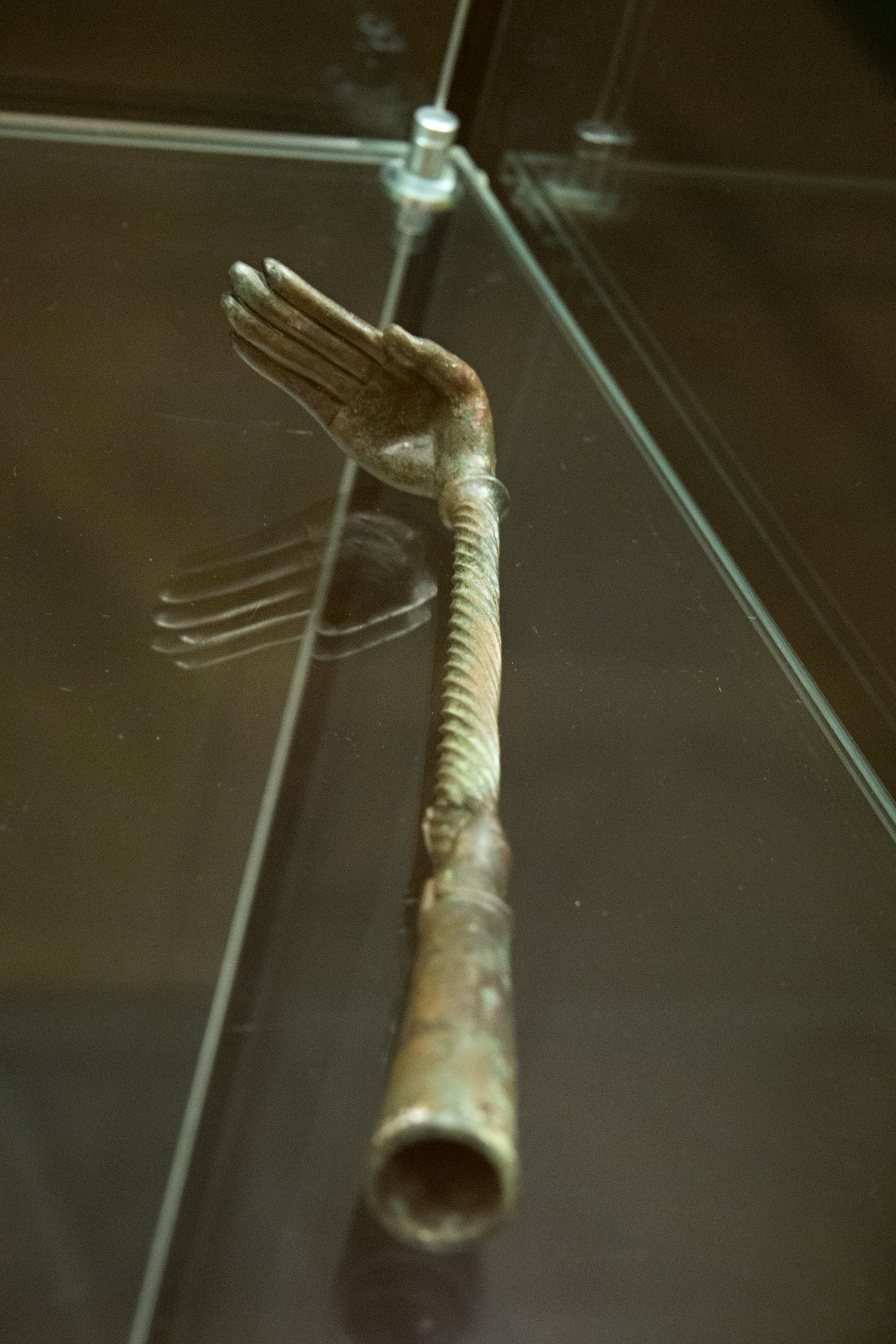 Fire poker ended with a cupped hand. Etruscan bronze. Vulci, circa 500 BC. NG Prague, Kinský Palace, NM-H10 1228.